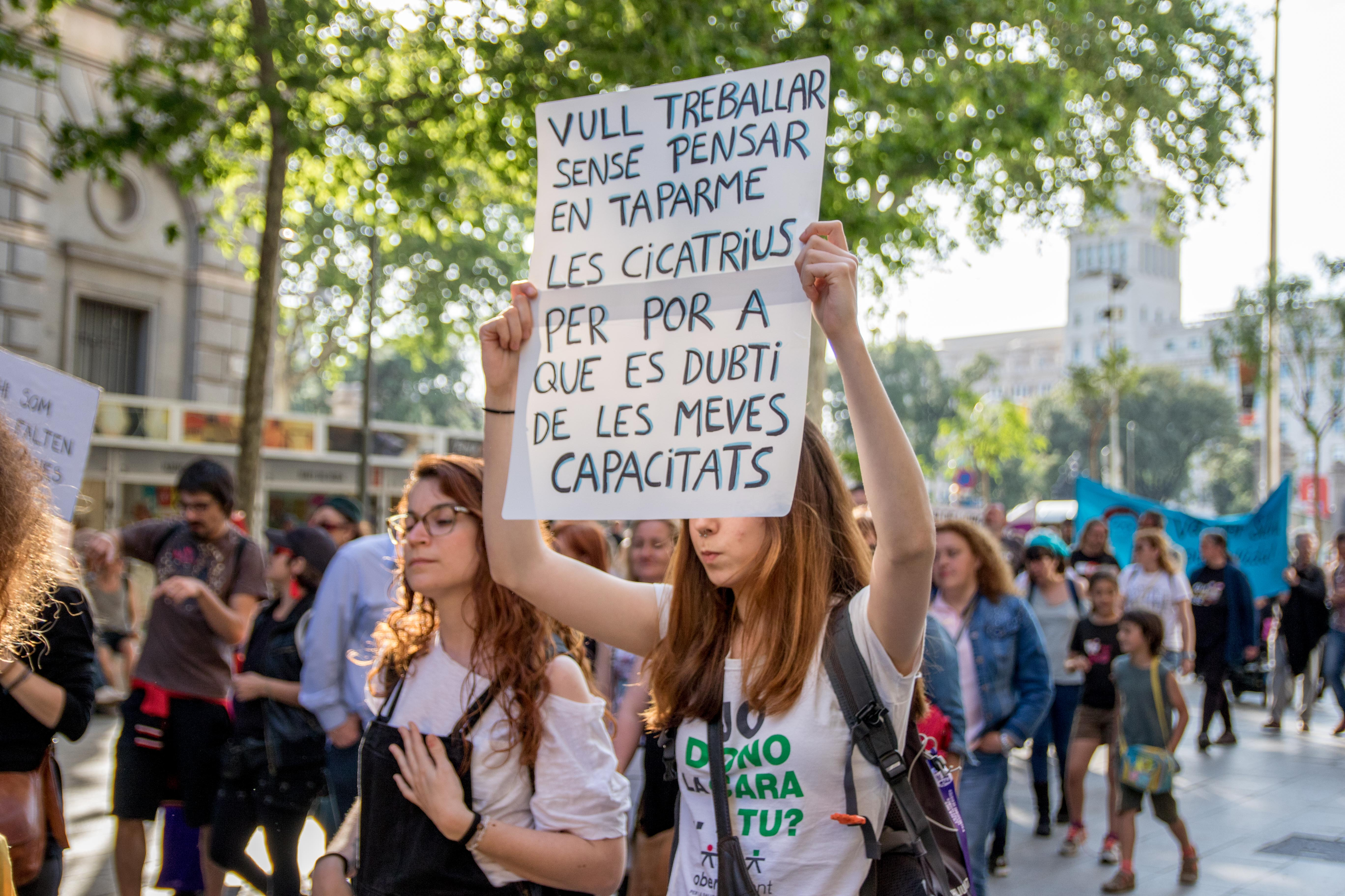 Mad Pride Day, Barcelona 2018